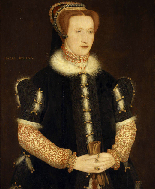 Bess of Hardwick (later Elizabeth Countess of Shrewsbury) when Mistress St Lo, 1550s. A later inscription incorrectly identifies her as Mary I.